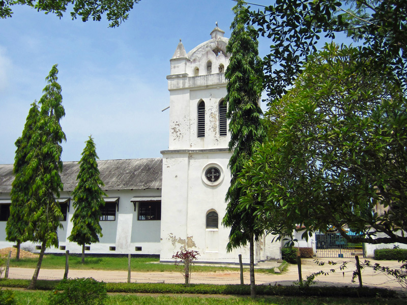 "Dr Livingstones tower" Bagamoyo